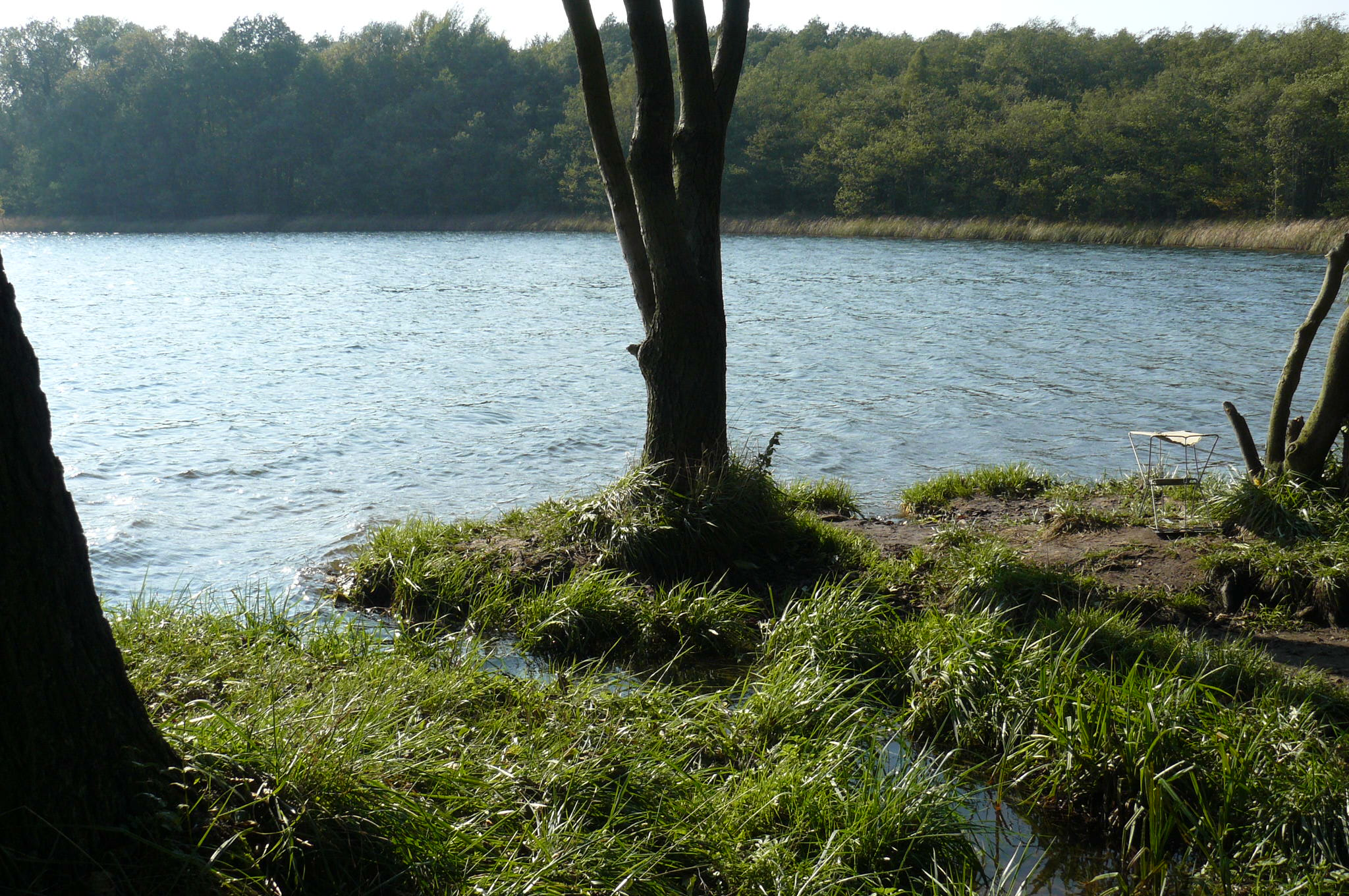 Strzeszynskie Lake, Poznan.